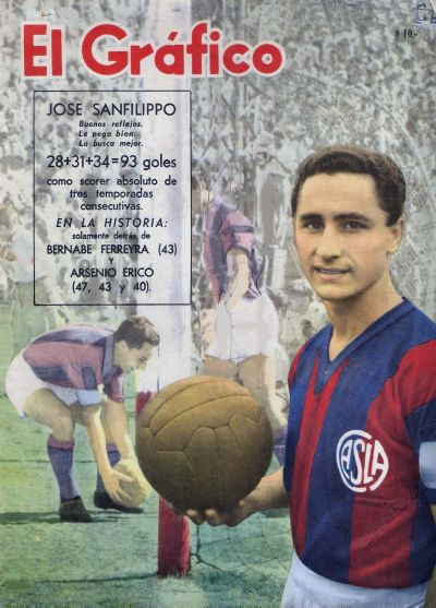 José Sanfilippo remarked as the third-consecutive time top scorer of Argentina playing for CA San Lorenzo.